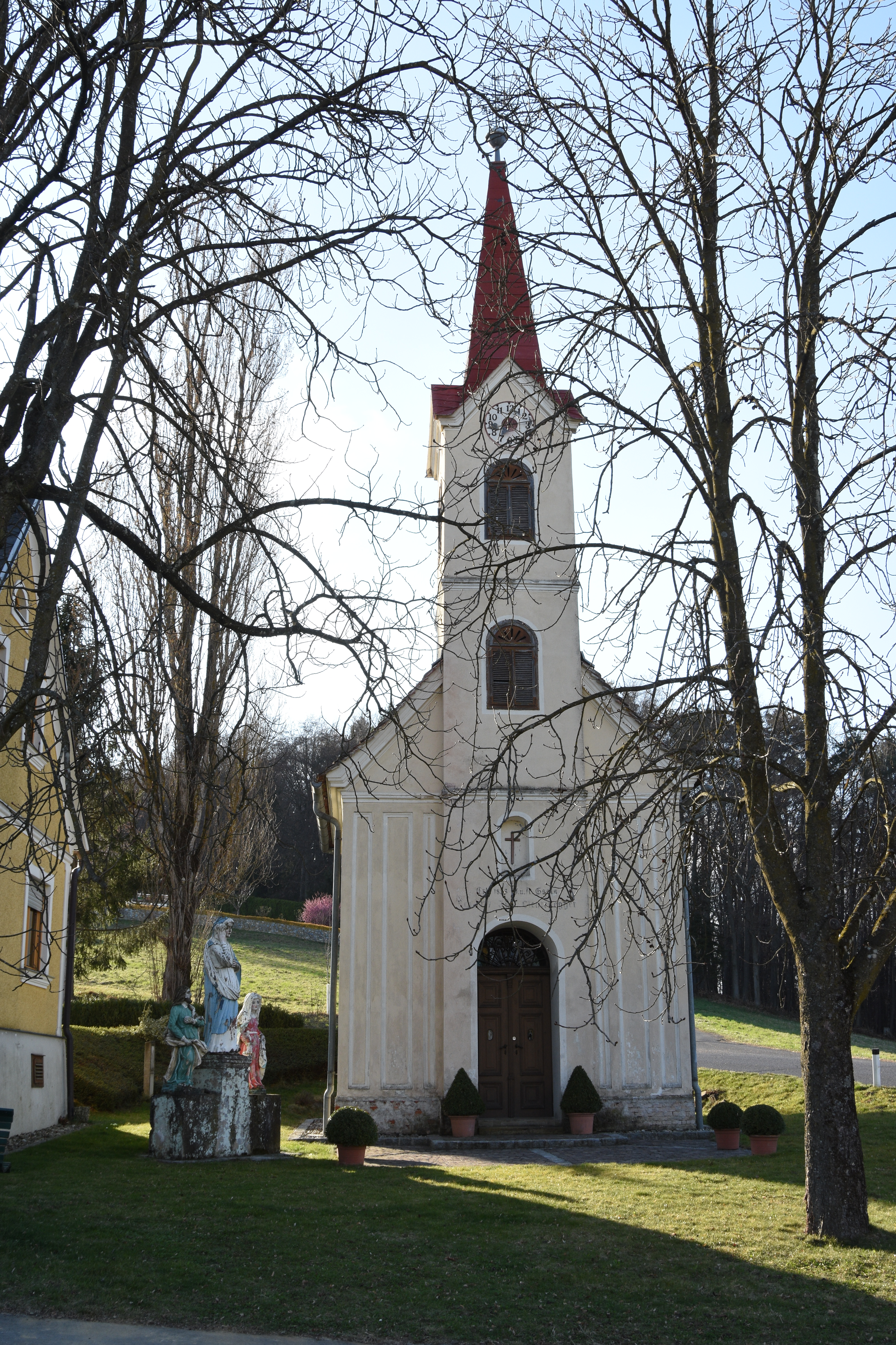 Chapel Wetzelsdorf